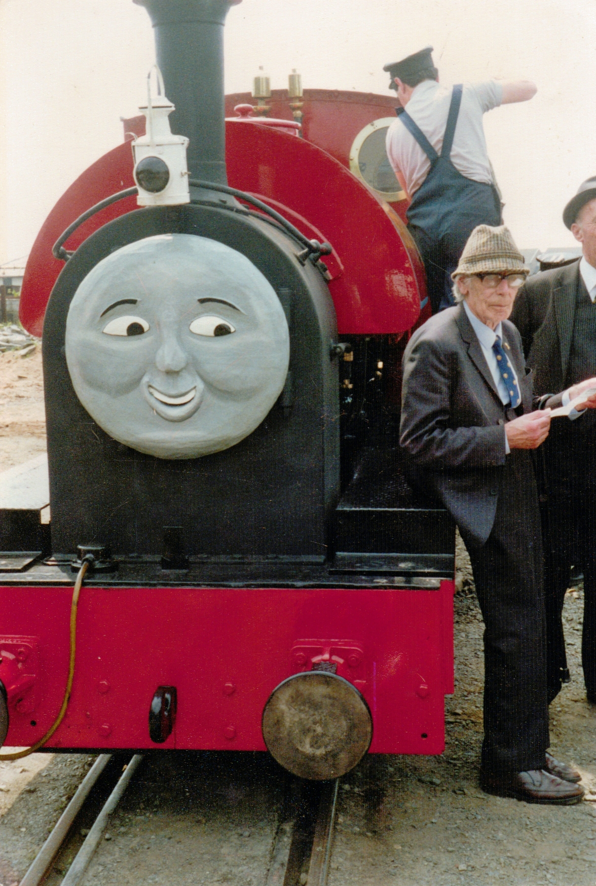 The Rev. W Awdry alongside one of his creations, "Peter Sam" (in real life No. 4 Edward Thomas) on the Talyllyn Railway.